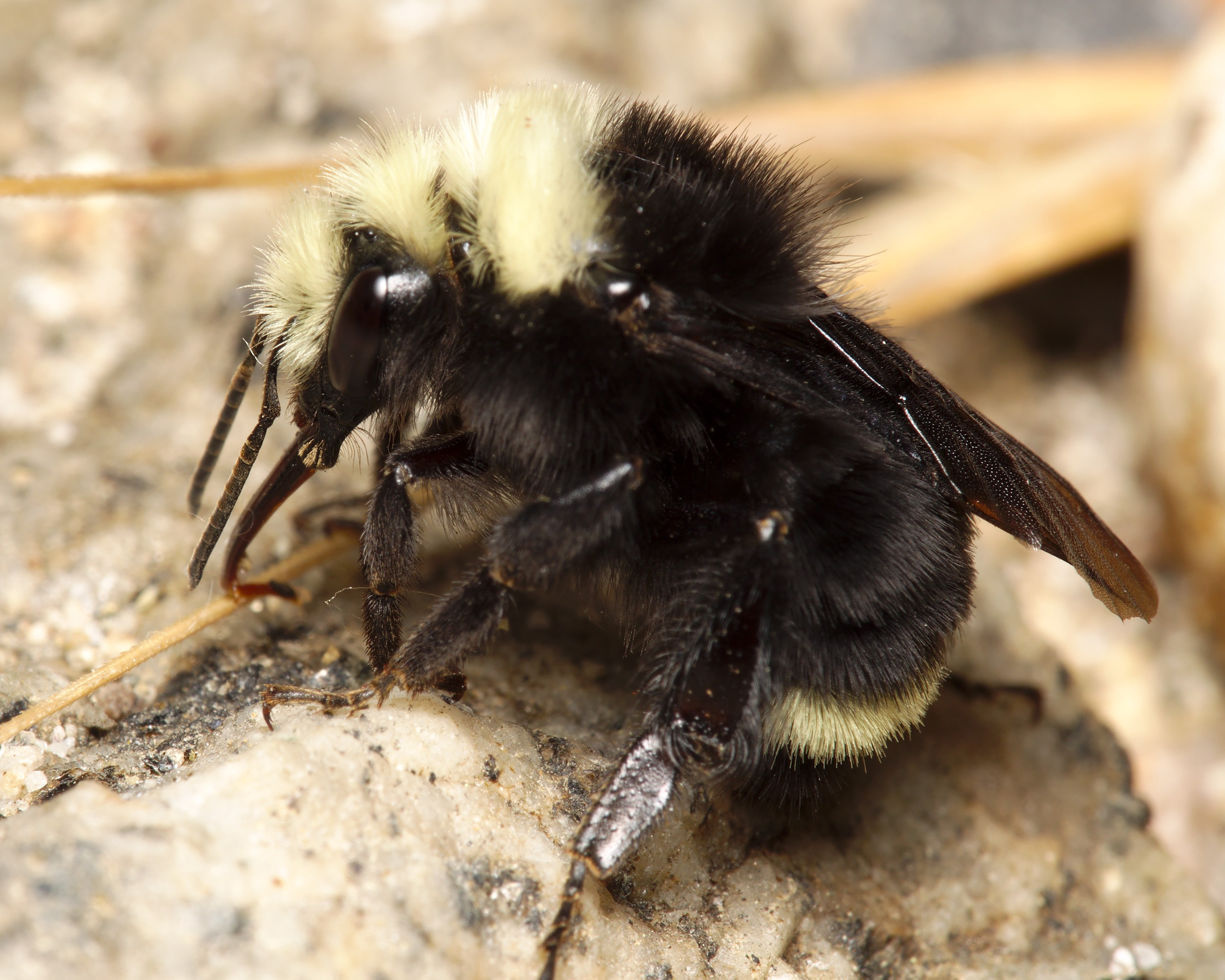 A yellow-faced bumblebee, Bombus vosnesenskii, at the edge of the Kern River in the Sequoia National Forest.